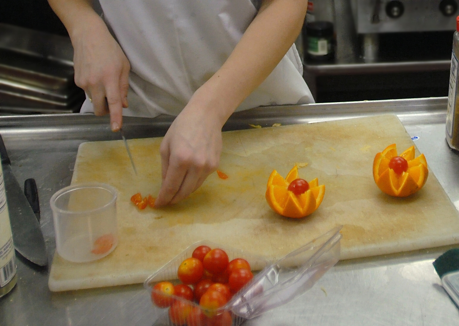 PACIFIC OCEAN (Nov. 6, 2008) Culinary Specialist Seaman Jessica Menz, from Minn., carves an orange and cherry tomatoes into a fruit sculpture in the Chief Petty Officer's Mess aboard the Nimitz-class aircraft carrier USS Ronald Reagan (CVN 76). Culinary Specialist makes fruit sculptures as garnish for a better presentation of the food they serve. The Ronald Reagan Carrier Strike Group is on a routine deployment in the U.S. 7th Fleet area of responsibility operating in the Western Pacific and Indian oceans. (U.S. Navy photo by Mass Communication Specialist Seaman Apprentice Oliver Cole/Released)